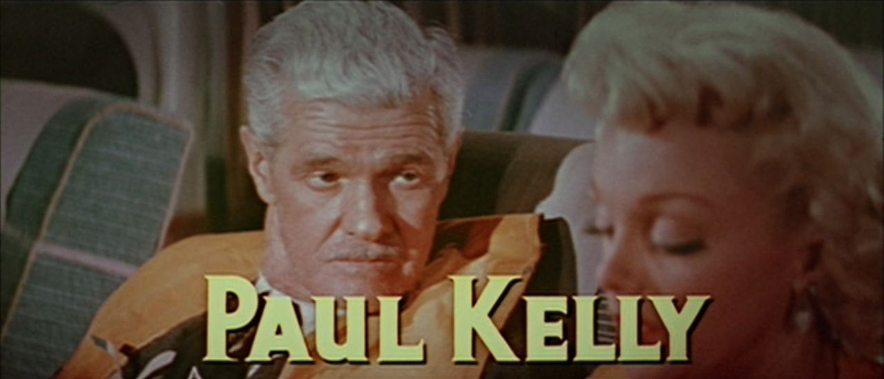 Screenshot showing Paul Kelly from the film The High and the Mighty.